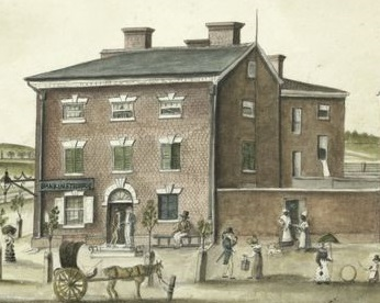 [Rhodes' Tavern] on the corner of F Street Washington next to our house autumn 1817